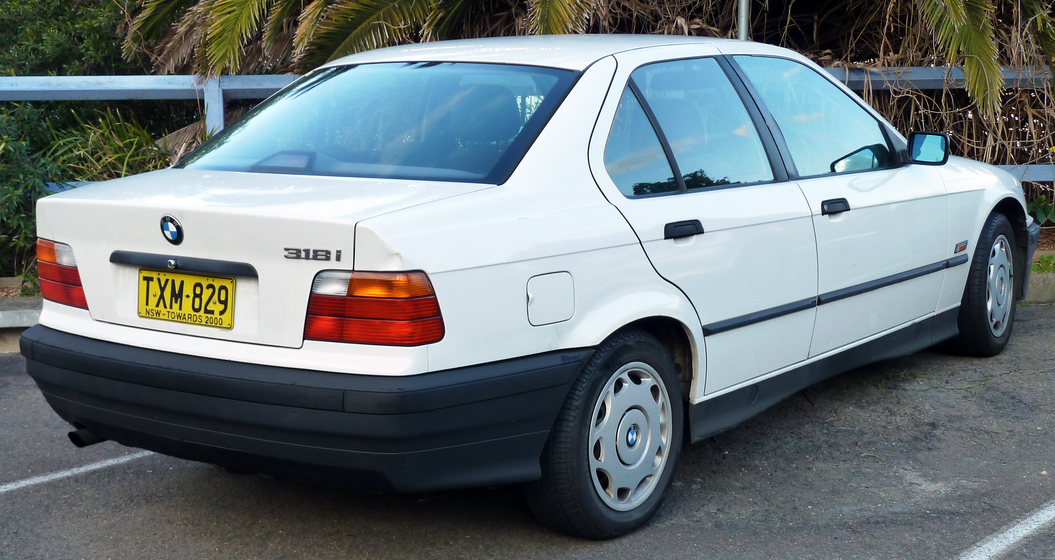 1995 BMW 318i (E36) sedan. Photographed in Blakehurst, New South Wales, Australia.